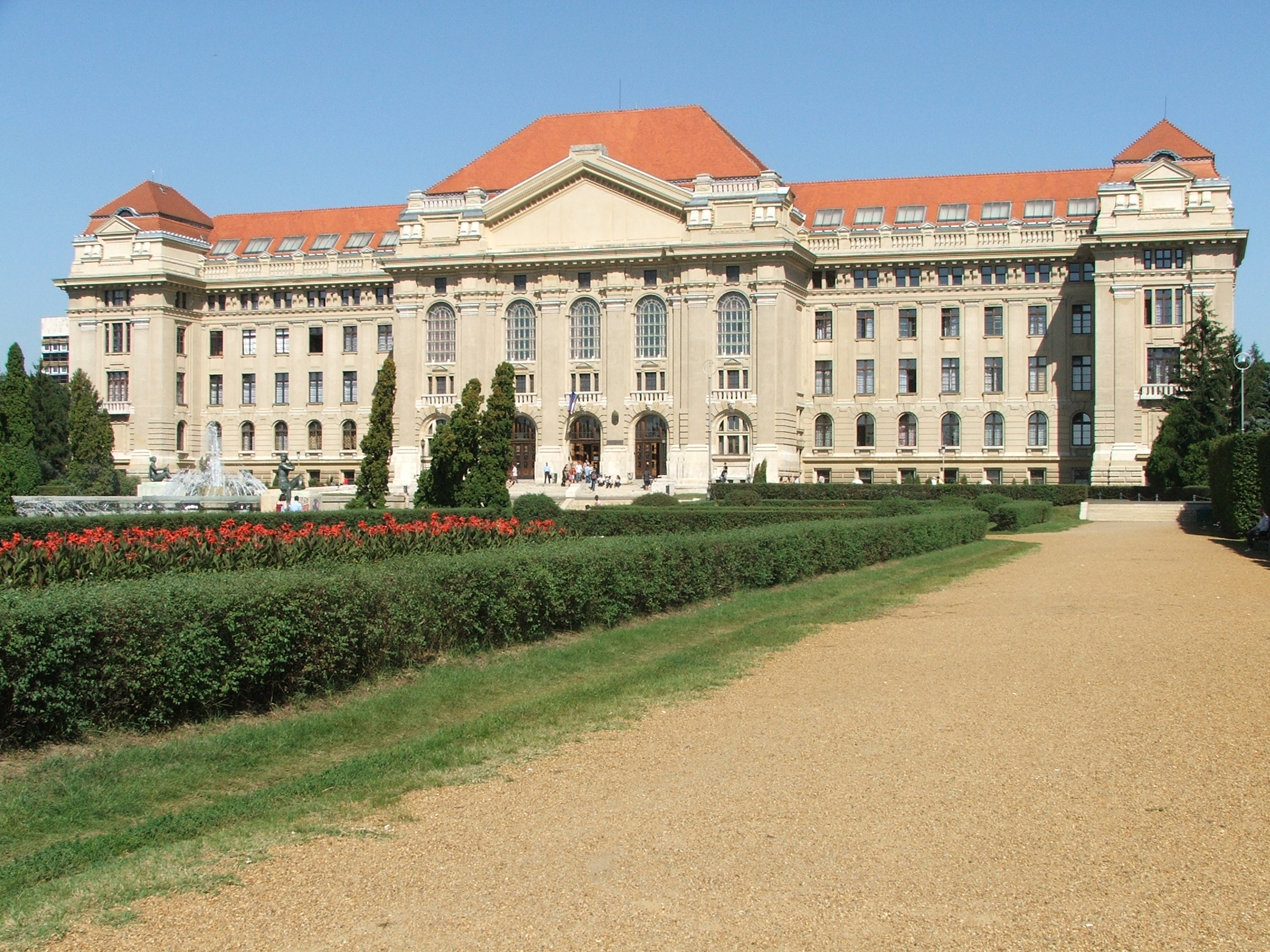 Main building of University of Debrecen